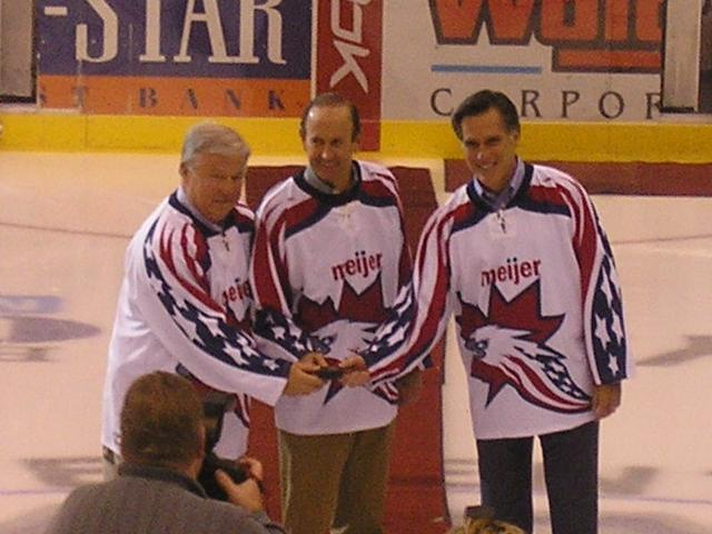 Haley Barbour, Dick DeVos and Mitt Romney drop the puck at the Saginaw Spirit hockey game against the Barrie Colts on November 3, 2006 at the Dow Event Center.